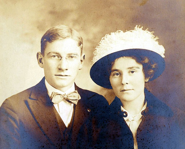 Ed and Neva Morris getting married in 1914.